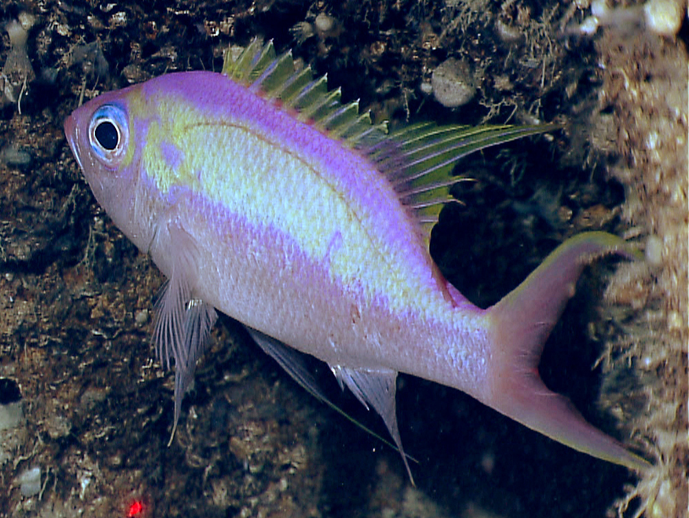 Deep sea fish -swallowtail bass (Anthias woodsi) Image ID: expl7091, Voyage To Inner Space - Exploring the Seas With NOAA Collect Location: Gulf of Mexico, North Credit: NOAA Okeanos Explorer Program, Gulf of Mexico 2012 Expedition